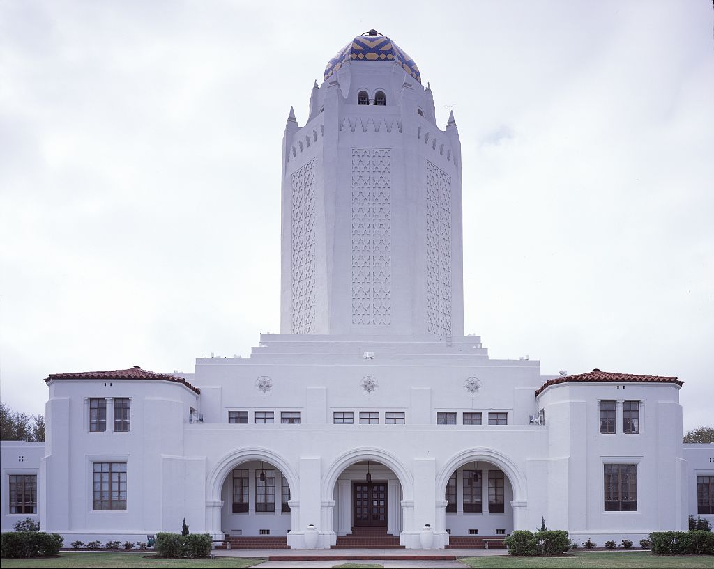 The Taj Mahal building, also known as the Administration Building, is located on the Randolph Air Force Base in San Antonio, Texas. Built in the 1920s, it is now a National Historic Landmark.